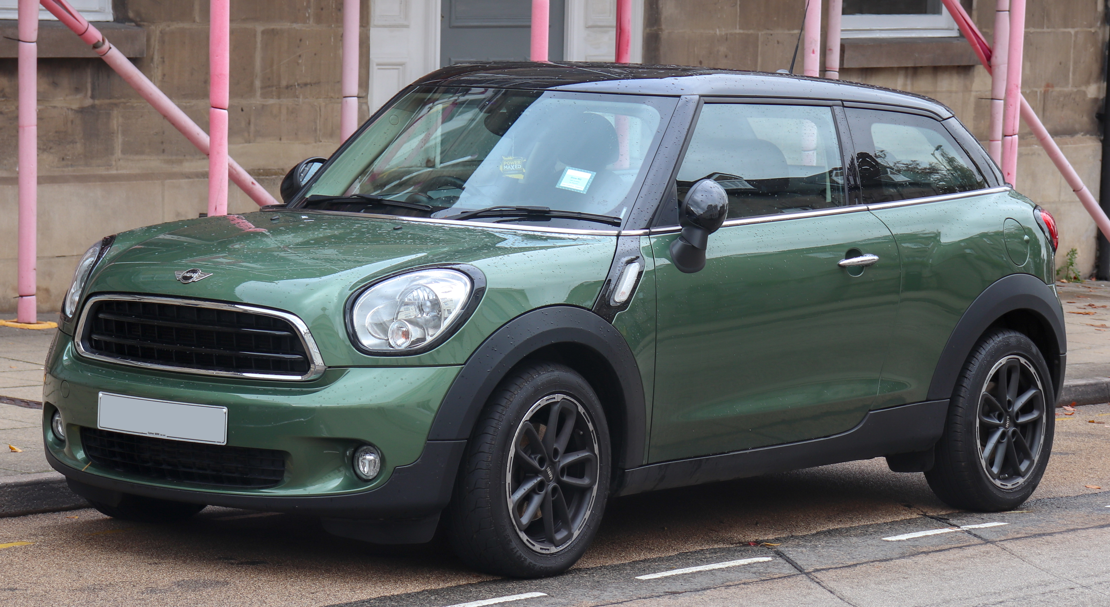 2015 Mini Paceman Cooper D Automatic 2.0 Front Taken in Warwick